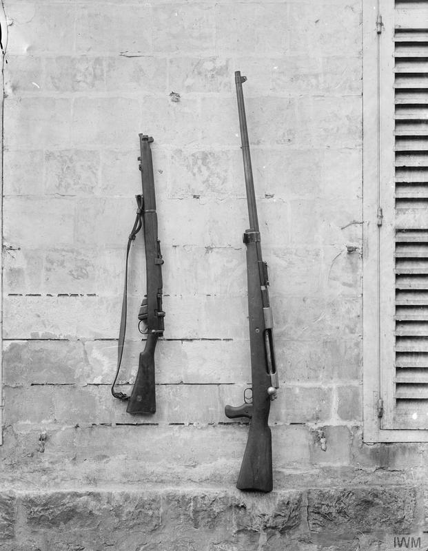 The Hundred Days Offensive, August-november 1918 A captured German Mauser 1918 T-Gewehr anti-tank rifle compared with a British Lee-Enfield rifle. Neulette, 30 August 1918.